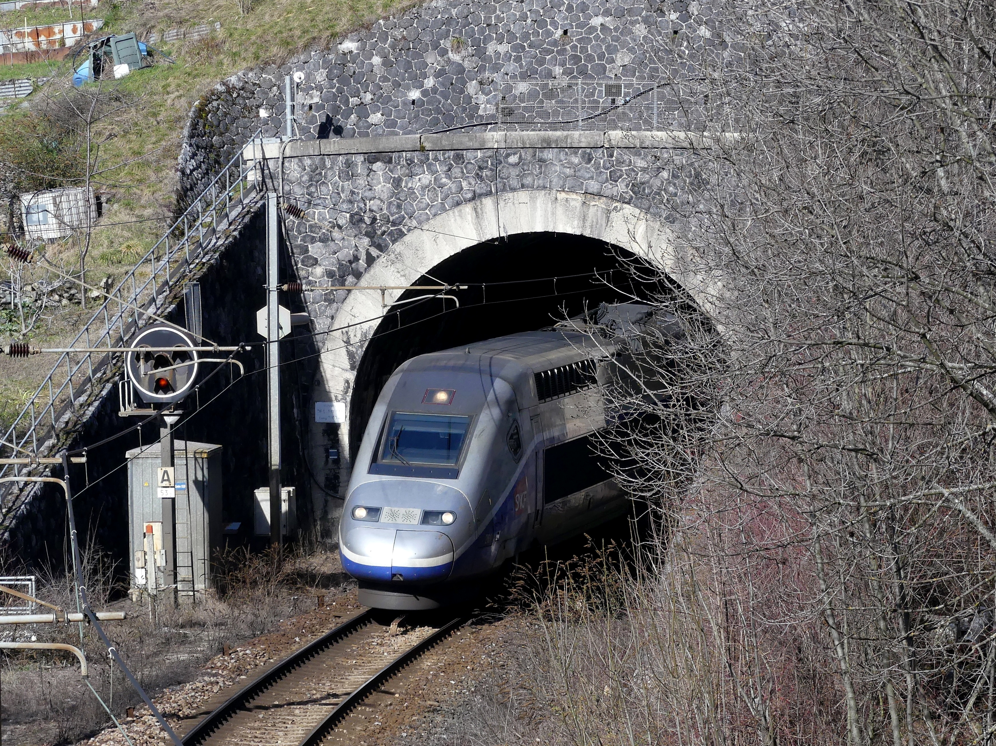 Sight of the French Winter TGV on journey n° 5309 from Nantes to Bourg-Saint-Maurice leaving the Tunnel de la Boucle helicoidal tunnel on the heights of Moûtiers, in Savoie.